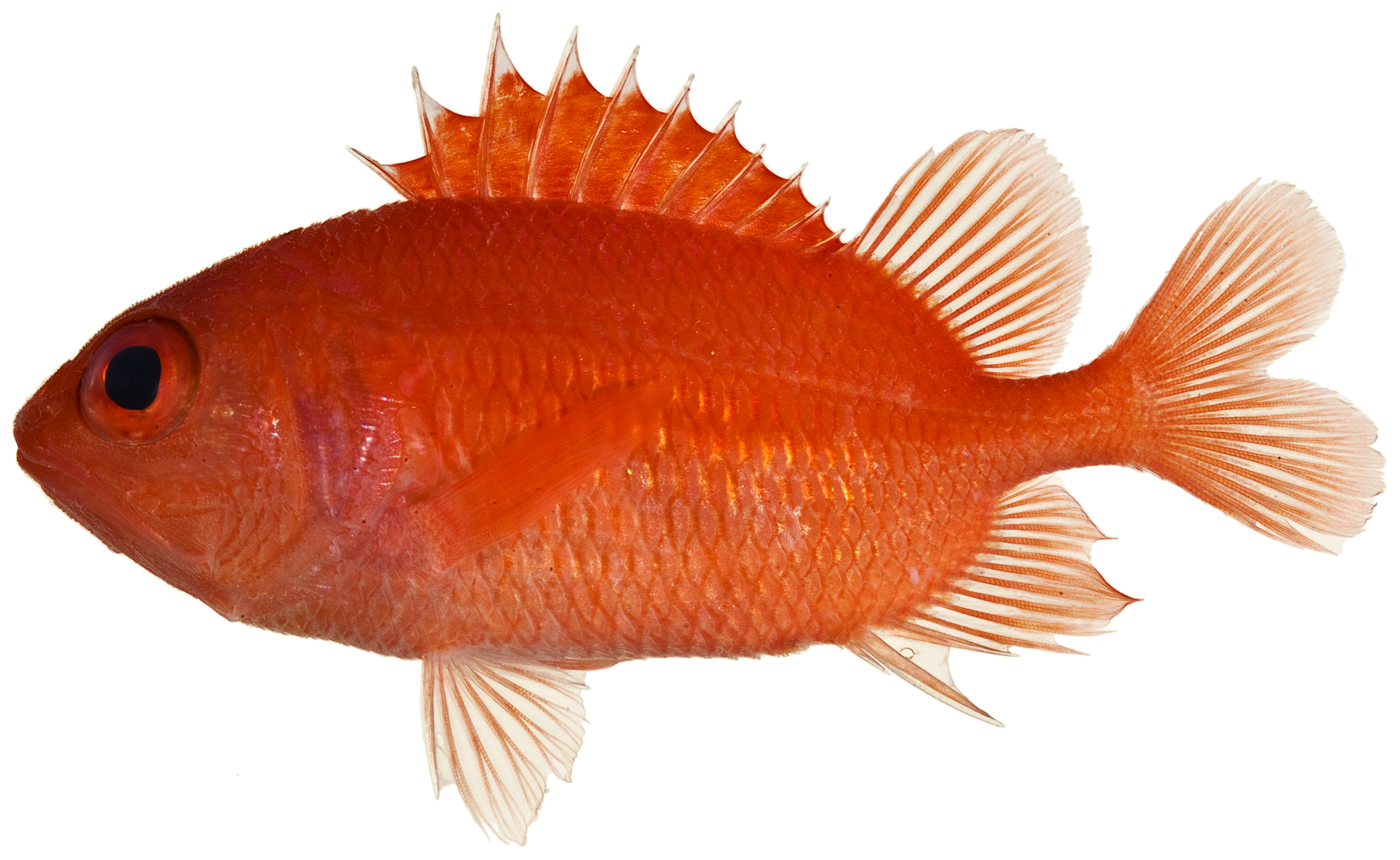 Plectrypops retrospinis (Guichenot, 1853)—cardinal soldierfish, 71.5 mm SL. Photo by JT Williams.